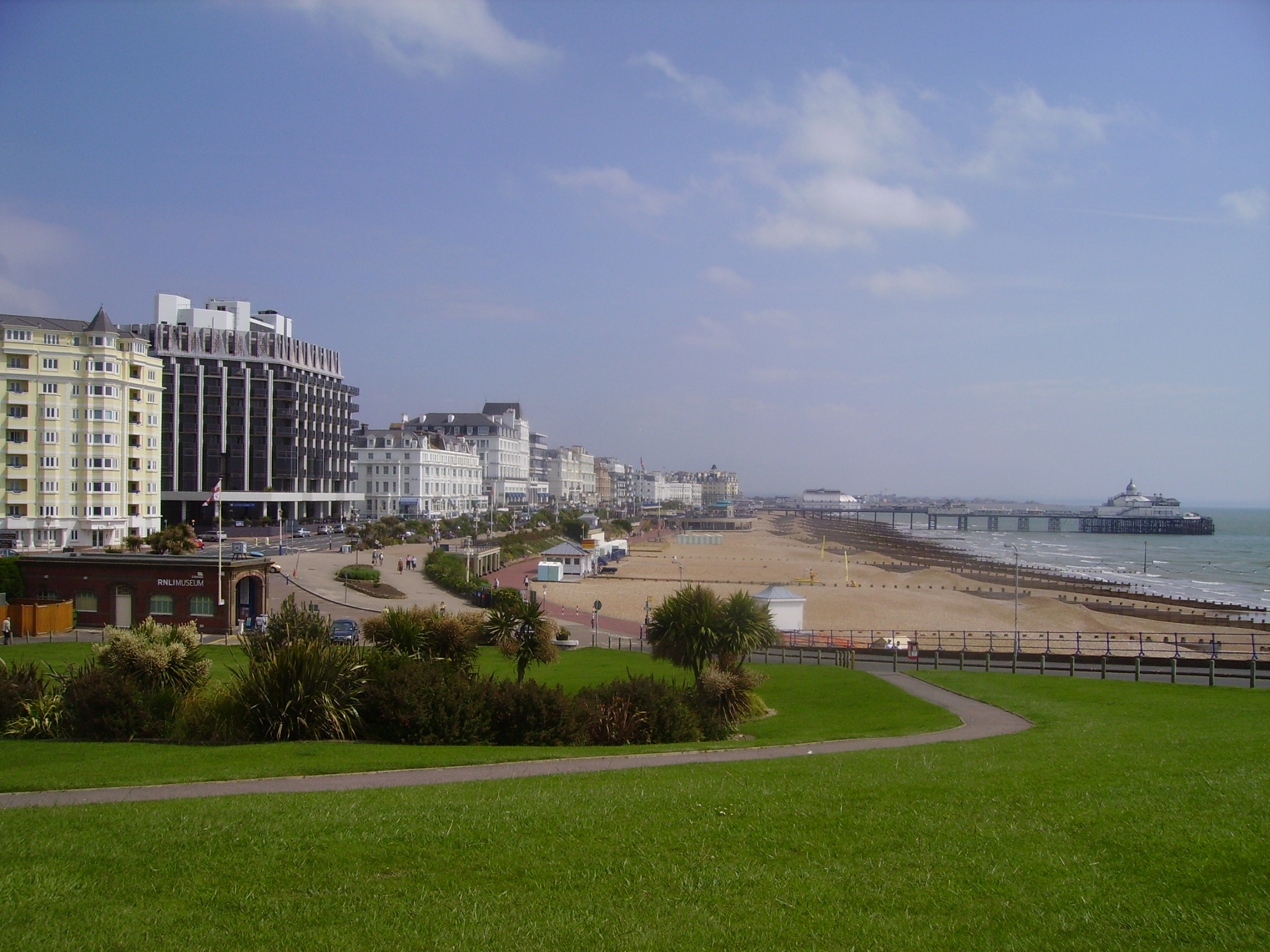 eastbourne seaside